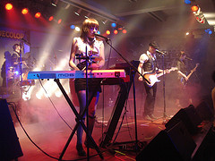 Creature en Chine